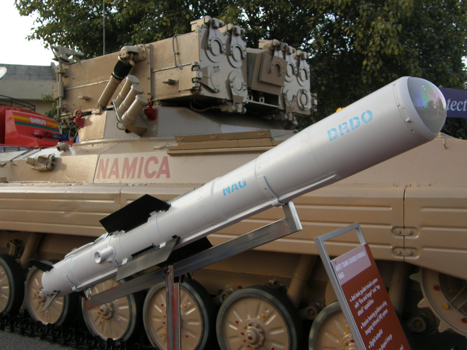 An image of the Nag missile and the Nag missile Carrier Vehicle (NAMICA), taken during DEFEXPO-2008, in Pragati Maidan, New Delhi, on 15th February 2008. The Nag is a third generation Anti-tank Guided missile developed by DRDO. NAMICA is based on a BMP-2 Chassis, and can carry 12 Nag missiles, with 8 in ready to fire configuration in the launch tubes.